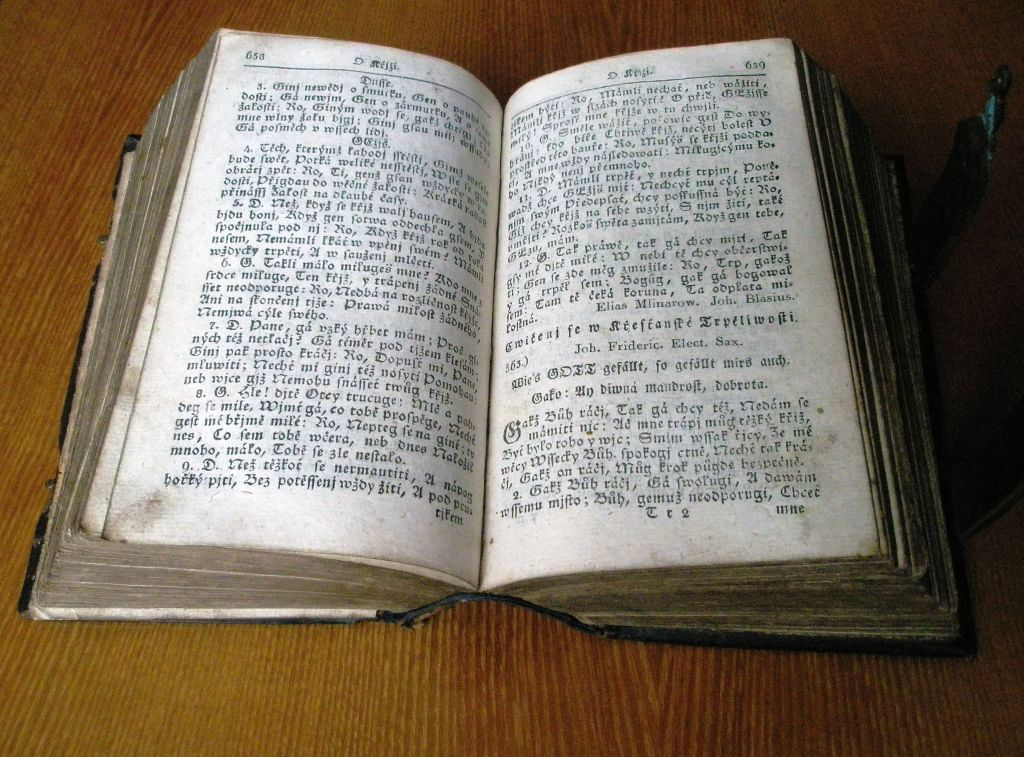 Cithara sanctorum, Pest 1828